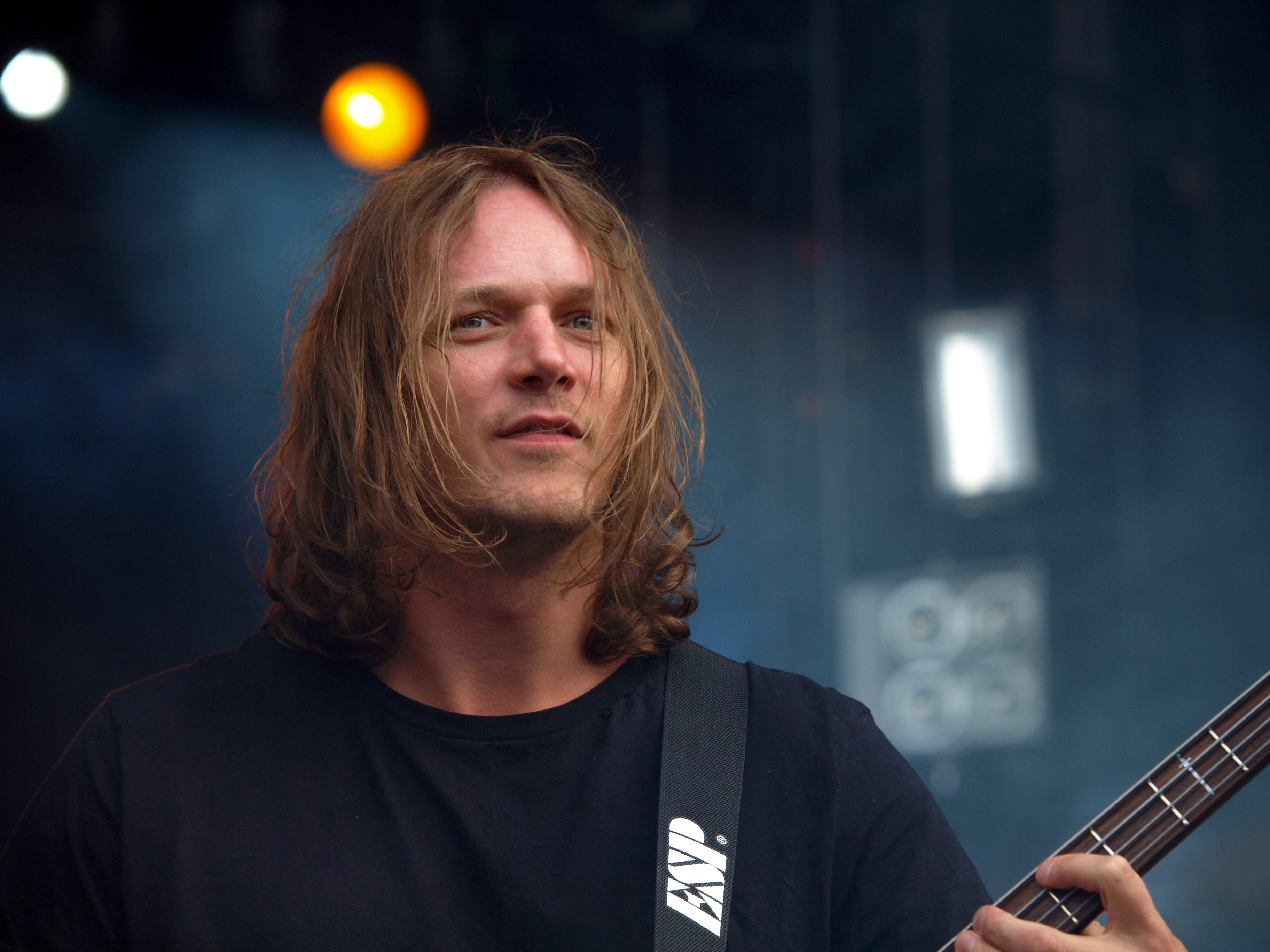 Finnish band Children of Bodom live at Provinssirock 2013